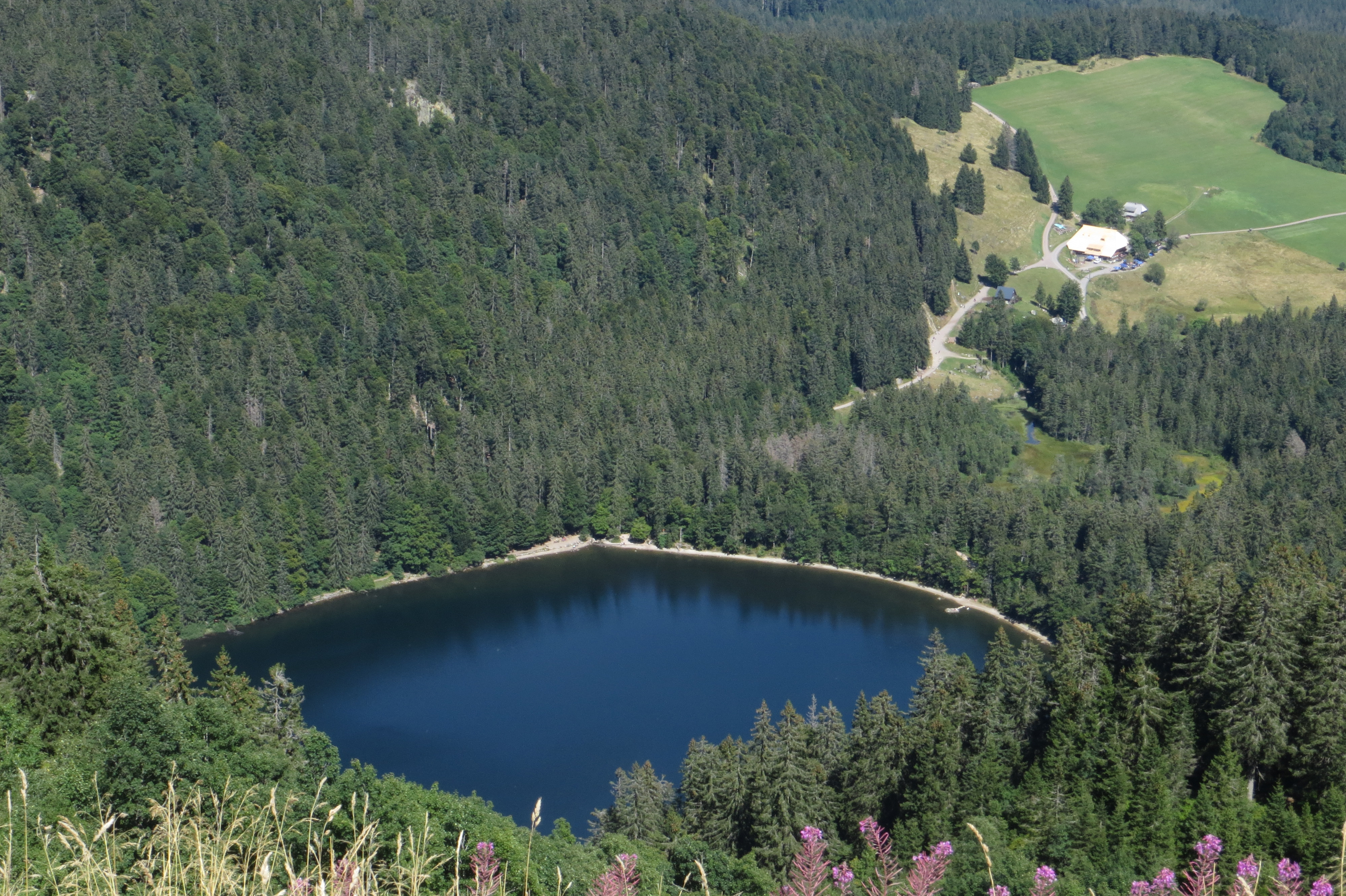 The Feldsee tarn seen from the area of the Bismarck monument on the Seebuck, Baden-Wuerttemberg, Germany